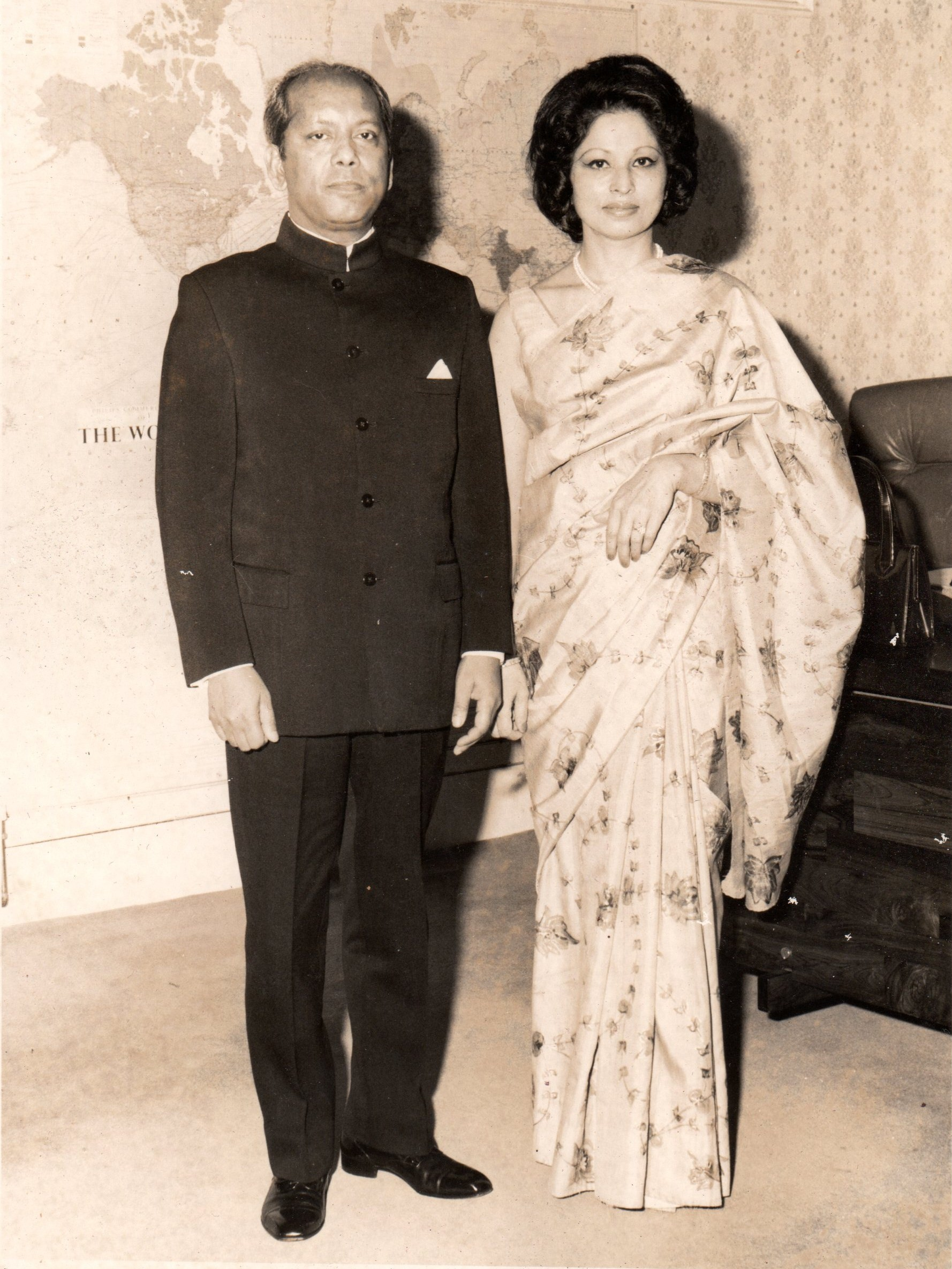 Abul Fateh of the Bangladesh High Commission and his wife Mahfuza, in London following presentation of credentials as High Commissioner to Queen Elizabeth II